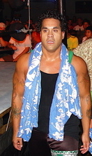 Samoan Fight Club at an FCW event in Ft Myers. PHOTO BY ROB BEUKEMA